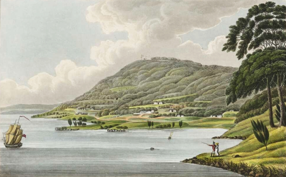 Mount Nelson, near Hobart Town from near Mulgrave Battery, Van Diemens Land, 1 print : aquatint, hand col. ; plate mark 23 x 33 cm.